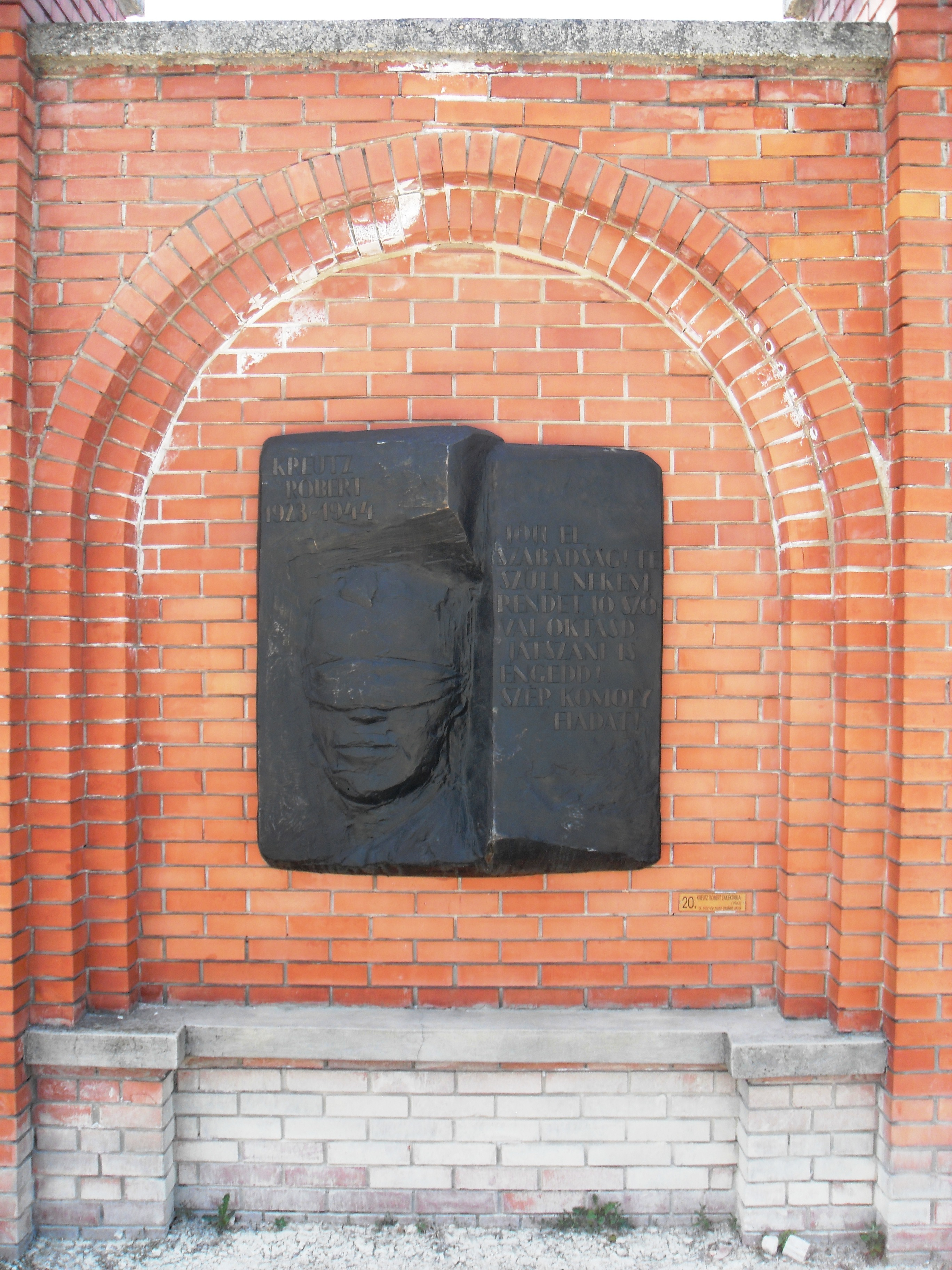 Róbert Kreutz Memorial Plaque in the Memento Park. Author: Kiss Nagy András. Year: 1977.